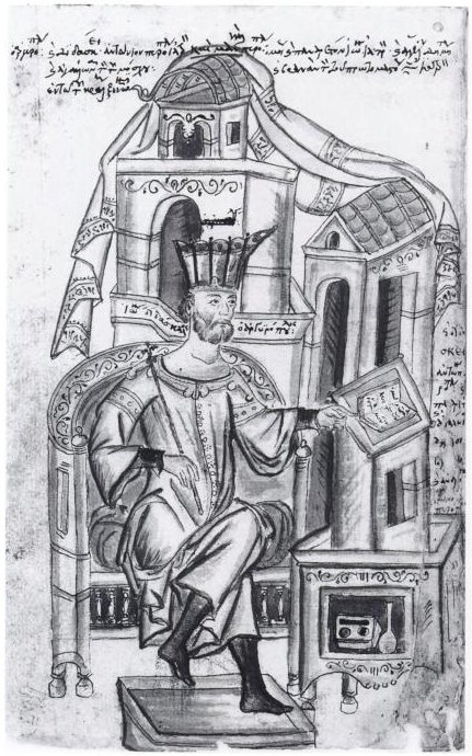 "John Argyropoulos teaching medicine at the hospital of the Kral (a foundation of the Serbian king Stephen Uroš II. Milutin, attached to the Petra Monastery at Constantinople) in c.1448. At the top of the page is a list of his students." (description from Mango, 2002, p. 293, see source)